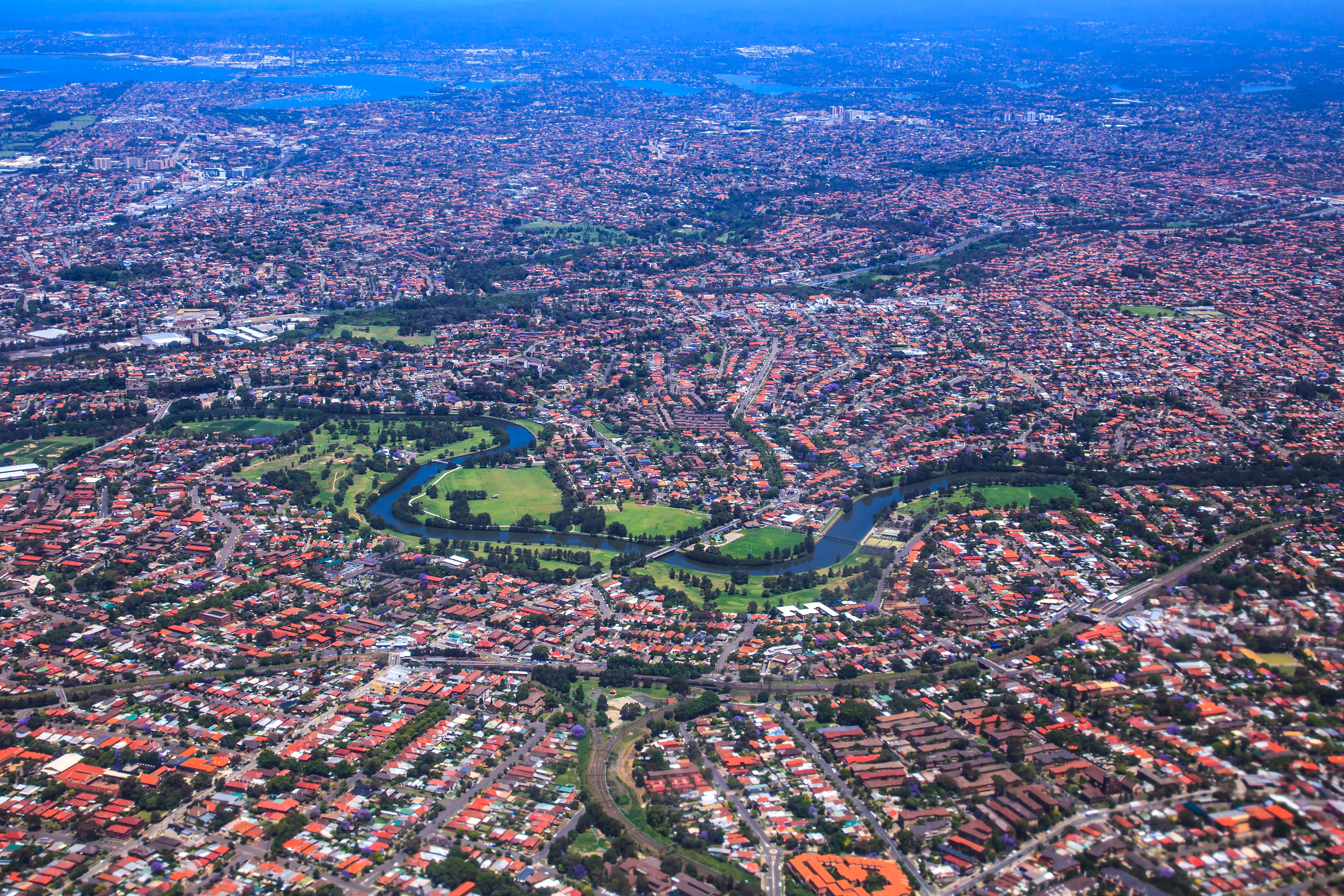 2nd leg, on this Air Canada plane...Sydney to Vancouver, BC...Sydney subburbs and beaches from the air